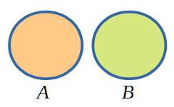 Disjoint Sets